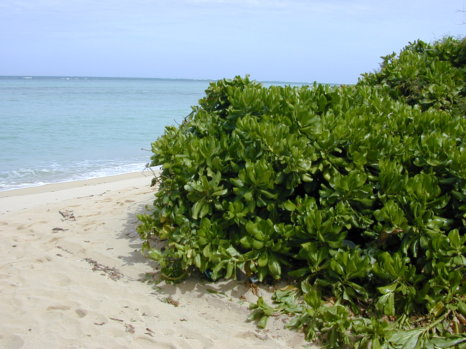 Scaevola taccada (habit). Location: Maui, Kanaha Beach